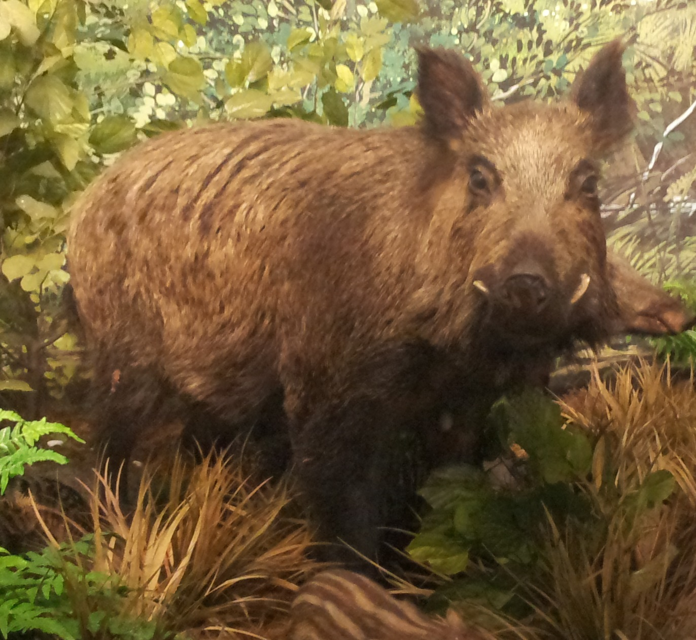 Exhibit in the Museo Civico di Storia Naturale di Genova, Via Brigata Liguria, 9, 16121, Genoa, Italy.